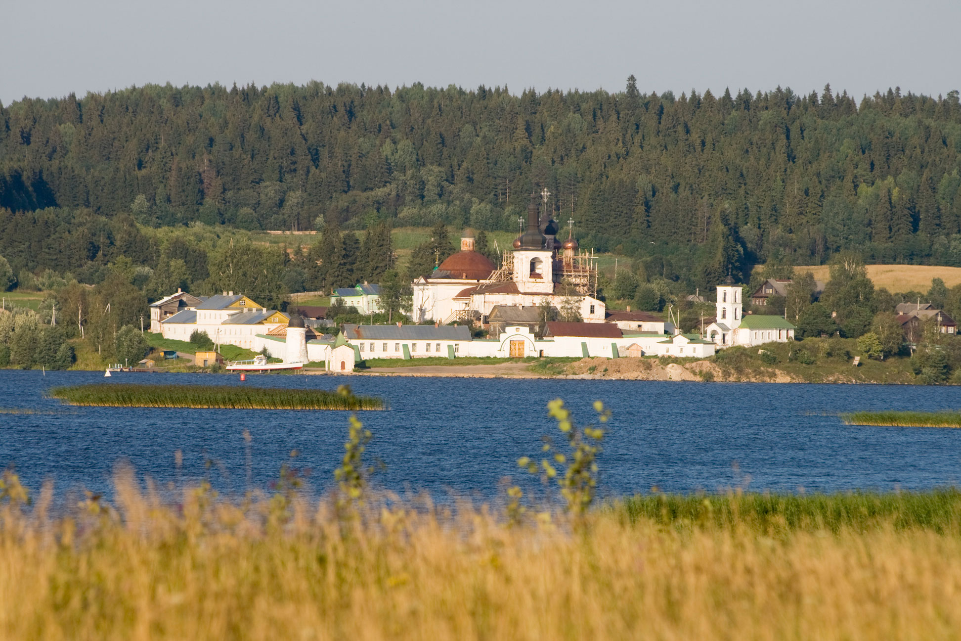 Goritsky monastery